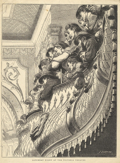 Saturday Night at the Victoria Theatre, wood-engraving, published in The Graphic, 26 October 1872 Victoria and Albert Museum, London, Museum number: S.3243-2009